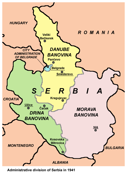 Administrative division of Serbia in 1941.